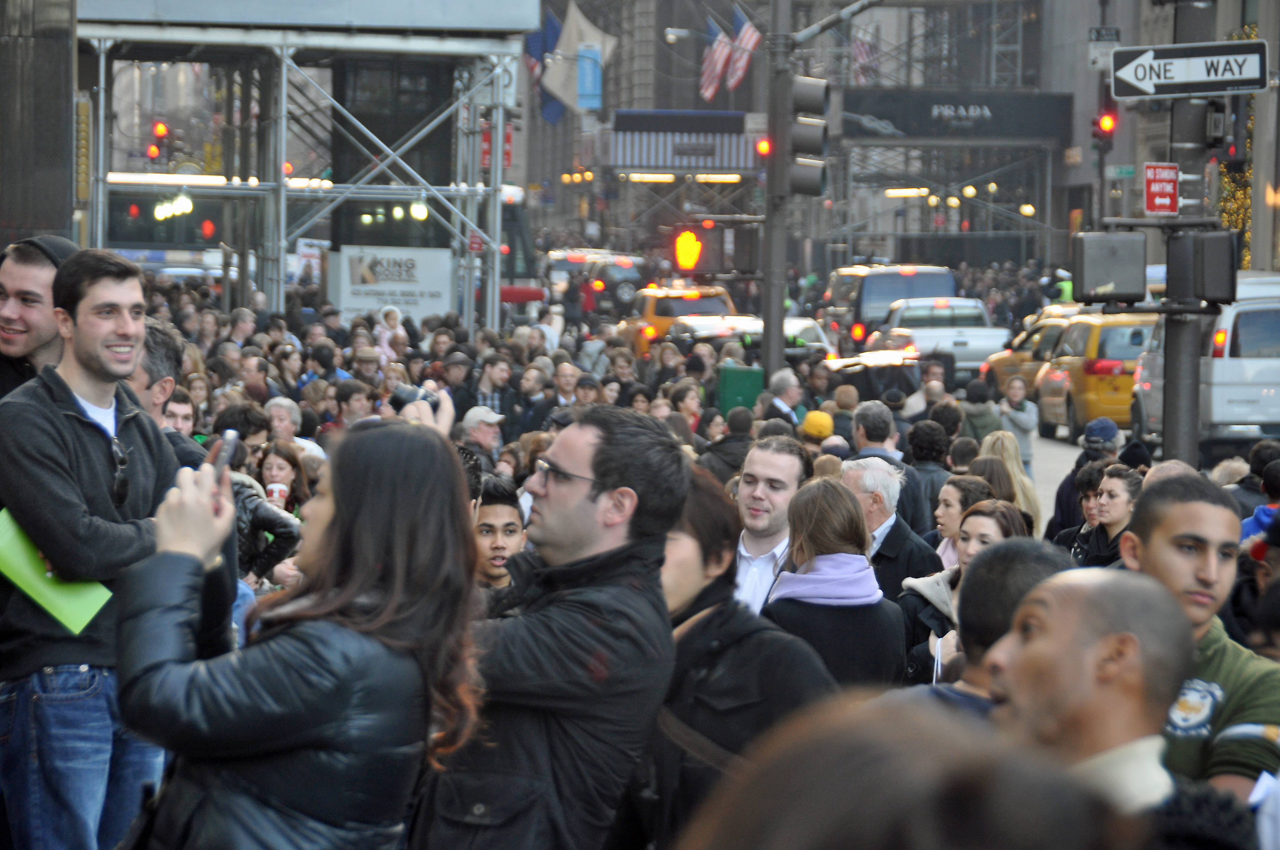 Black Friday at The Apple Store on Fifth Ave